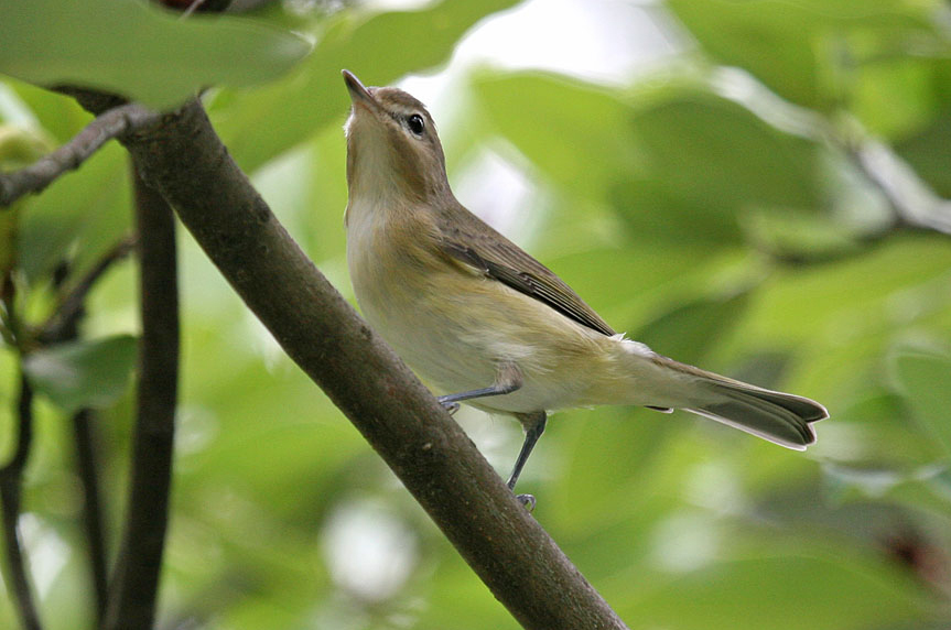 Warbling Vireo (Vireo gilvus gilvus) in a Sweetbay Magnolia (Magnolia virginiana) tree, Mount Auburn Cemetery, Massachusetts.